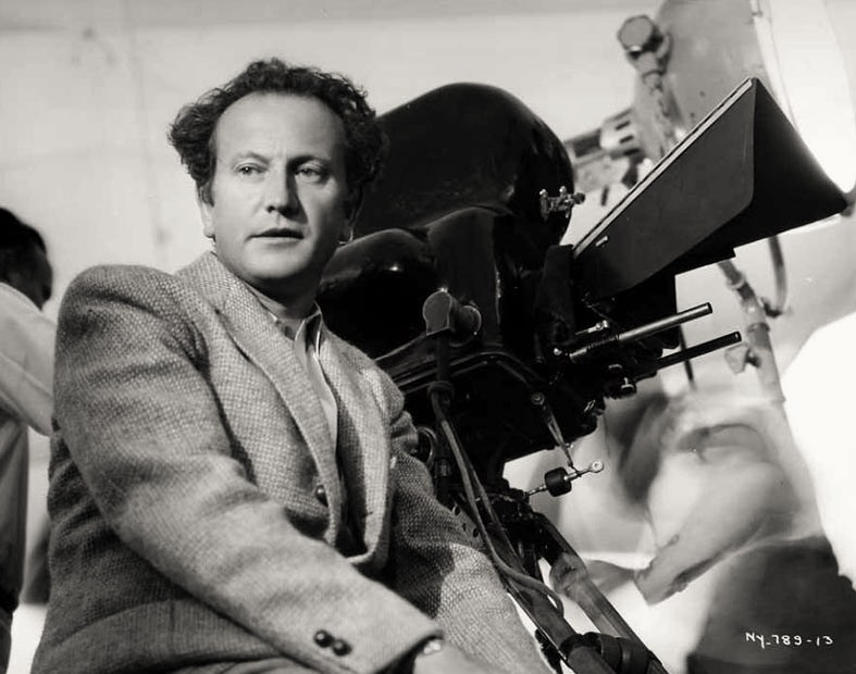 Richard Wallace (director) on the set of The Little Minister - publicity still